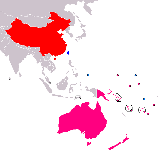 map of Sino-Pacific diplomatic relations; replacing a JPG map of mine with an identical PNG one